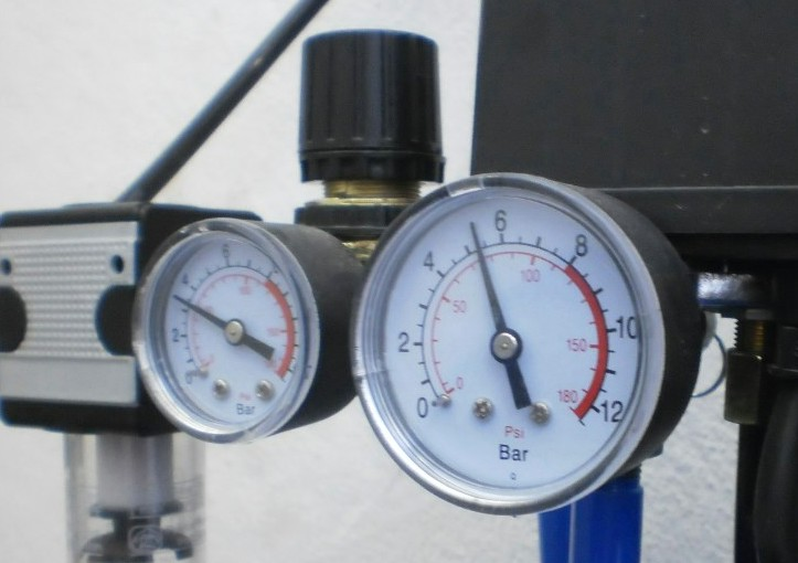 Two manometers at a pressure control station for compressed air